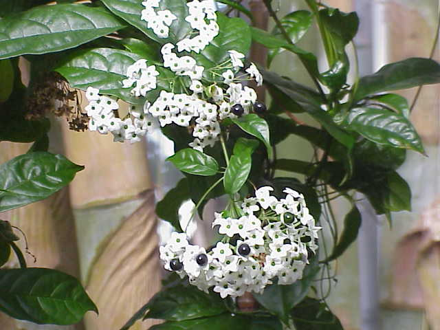 Species: Clerodendron formicarum Family: Verbenaceae Image No. 1